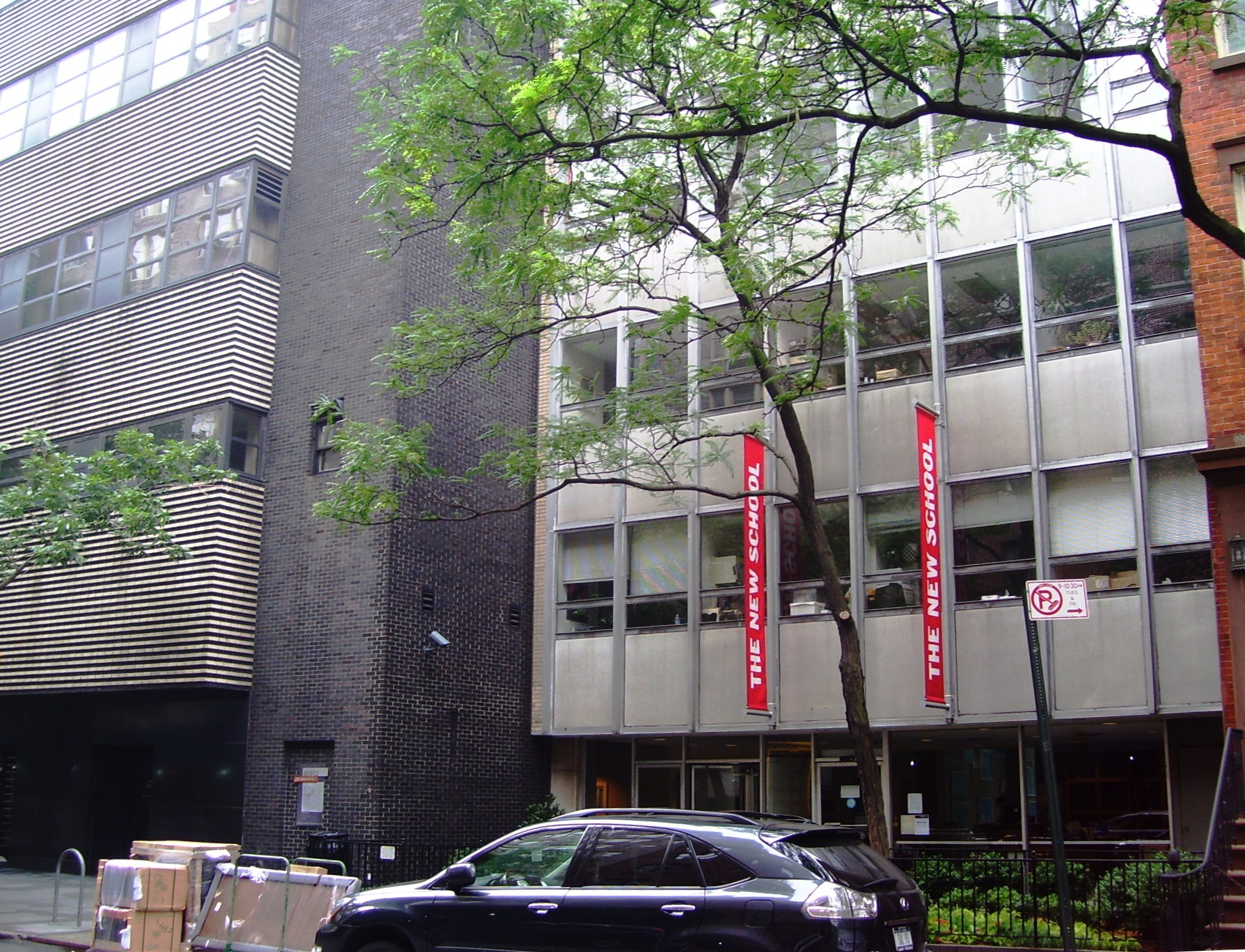 Kaplan Hall of The New School (right), 76 (74-76) West 12th Street, between Fifth and Sixth Avenues in the Greenwich Village neighborhood of Manhattan, New York City, was designed in 1955 by Mayer, Whittlesey & Glass and built in 1960. It connects by an interior walkway to 65 West 11th Street, built at the same time, and designed by the same firm. To the east of it is 66 (66-72) West 12th Street, Johnson Hall of The New School, which was built in 1930 and designed by Joseph Urban. It has been referred to by the New York City Landmarks Preservation Commission as "an architectural masterpiece". All the buildings are located within the Greenwich Village Historic District. (Source: "NYCLPC Greenwich Village Historic District Designation Report, volume 1")